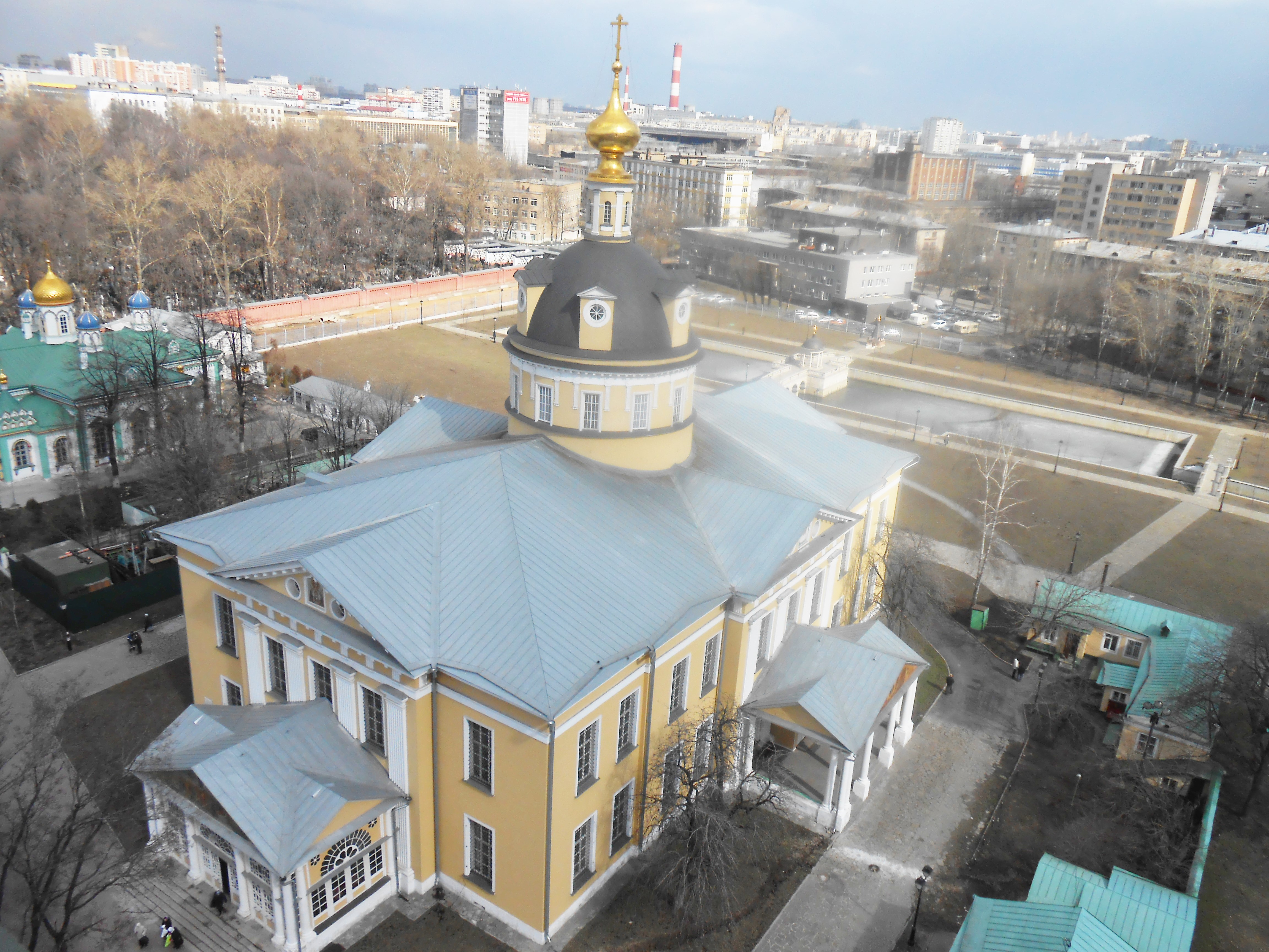 Вид с Рогожской колокольни